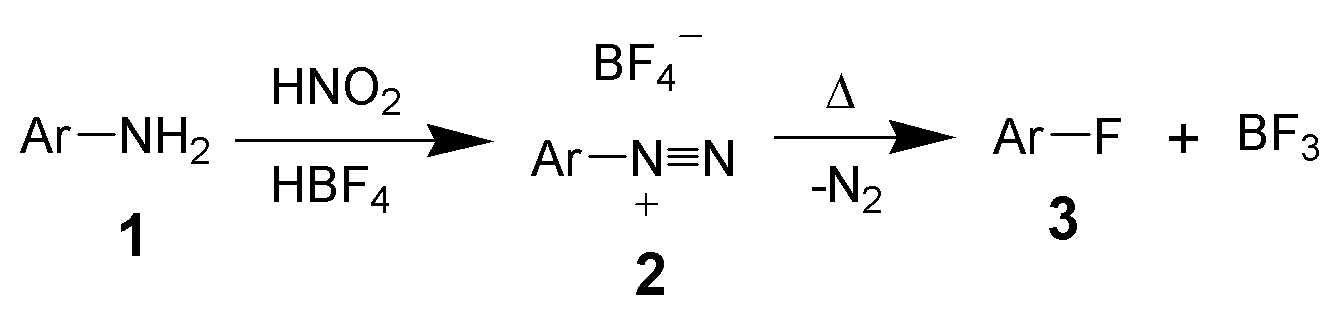 Description: Reaction scheme of the Schiemann reaction. Author, date of creation: selfmade by ~K, 03 September 2006. Source: - Copyright: Public domain. (PD) Comments: high-resolution b/w PNG; ChemDraw / The GIMP.